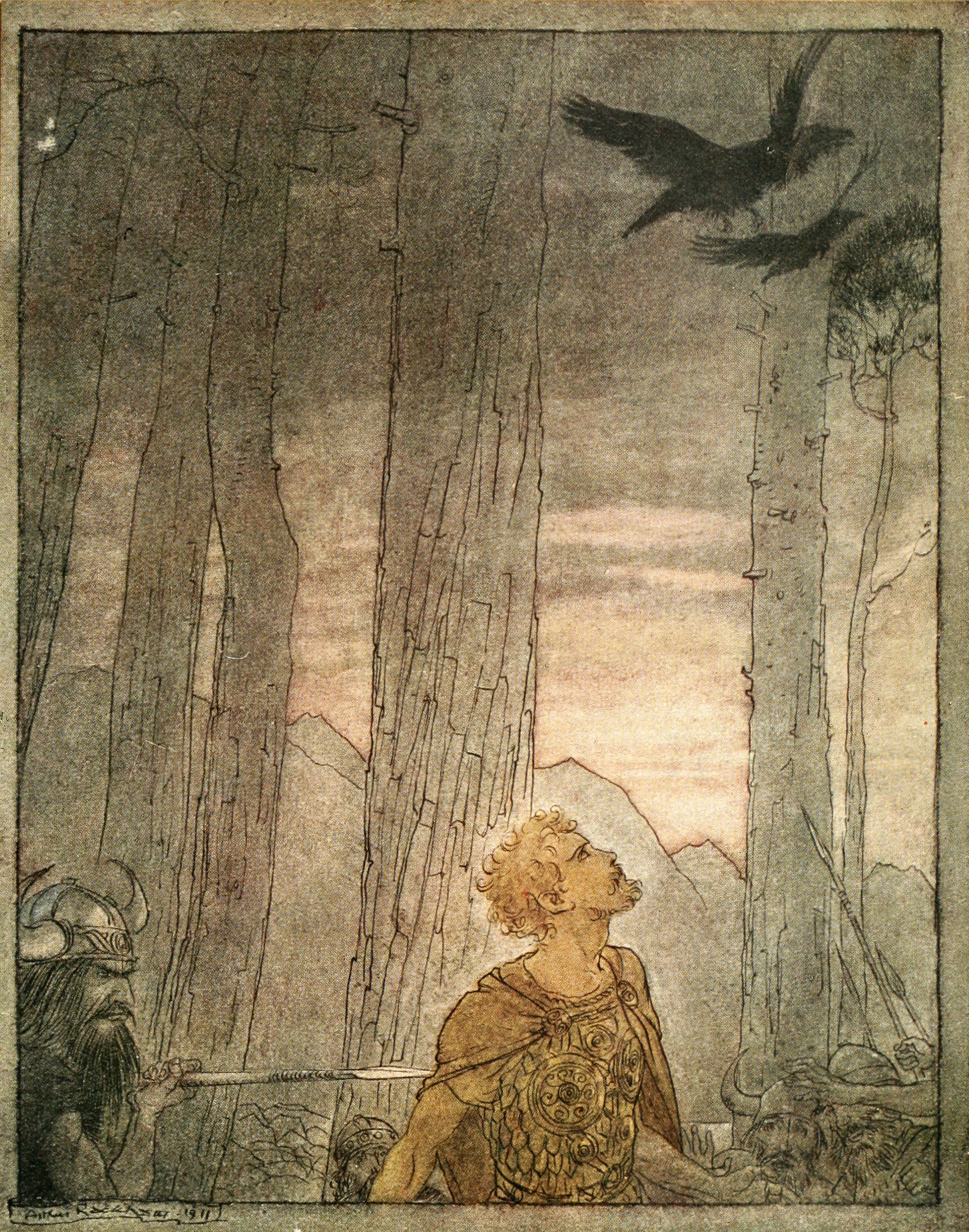 Siegfried's death